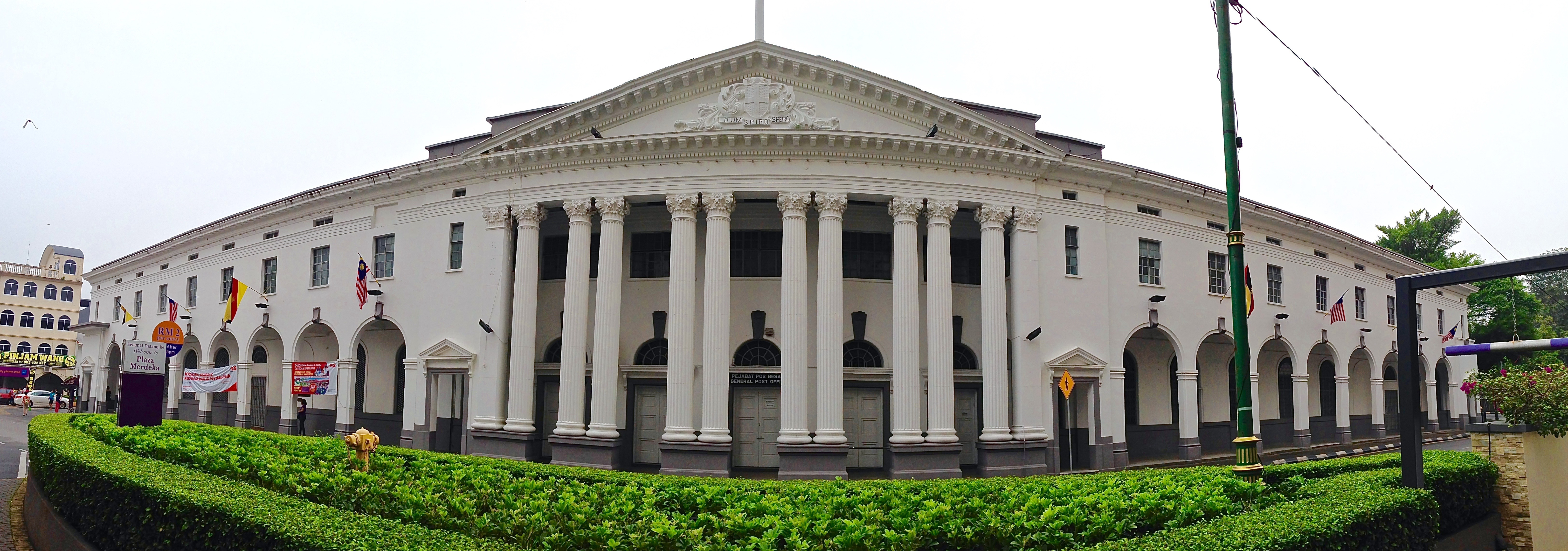 Panoramic view of the general post office building. Note the royal emblem of the Kingdom of Sarawak above the centre columns.